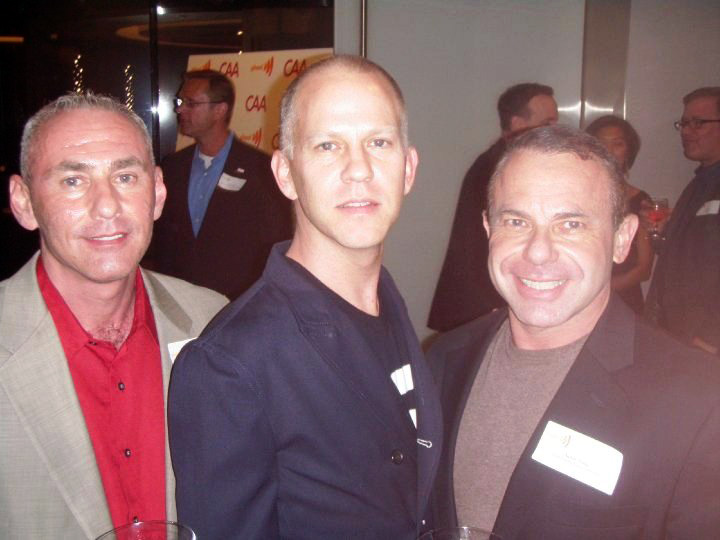 Glee' Producer Ryan Murphy and Gay Rights Activists married couple Don Norte and Kevin Norte at Spring Time G.L.A.A.D. 2010' Charitable Event in Century City, Los Angeles, California. Marking the start of their friendship.